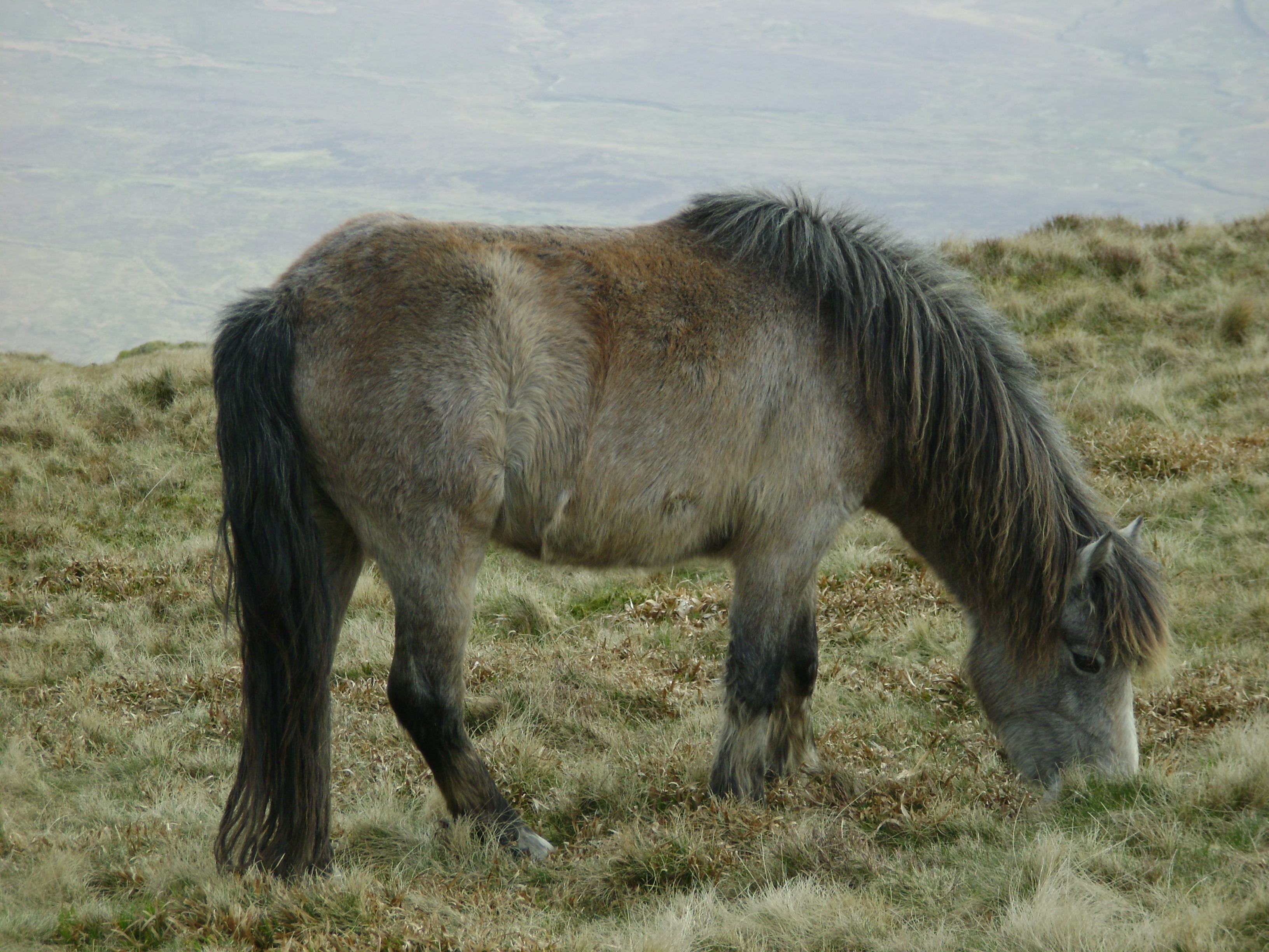 Photo of a wild pony taken in the mountains of Snowdonia.